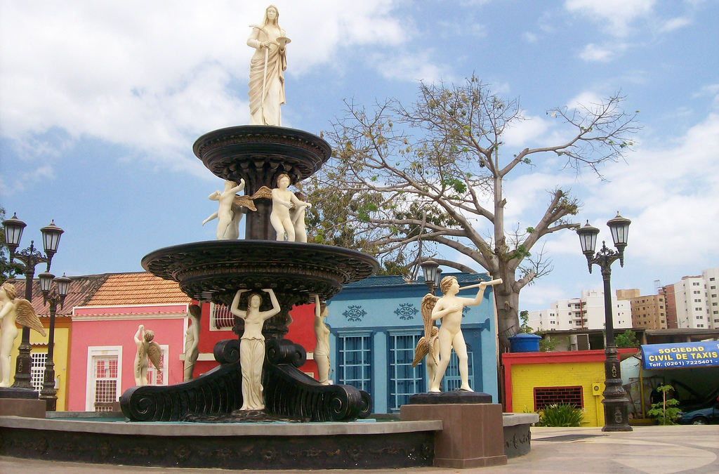 Santa Lucia, Maracaibo, Venezuela.